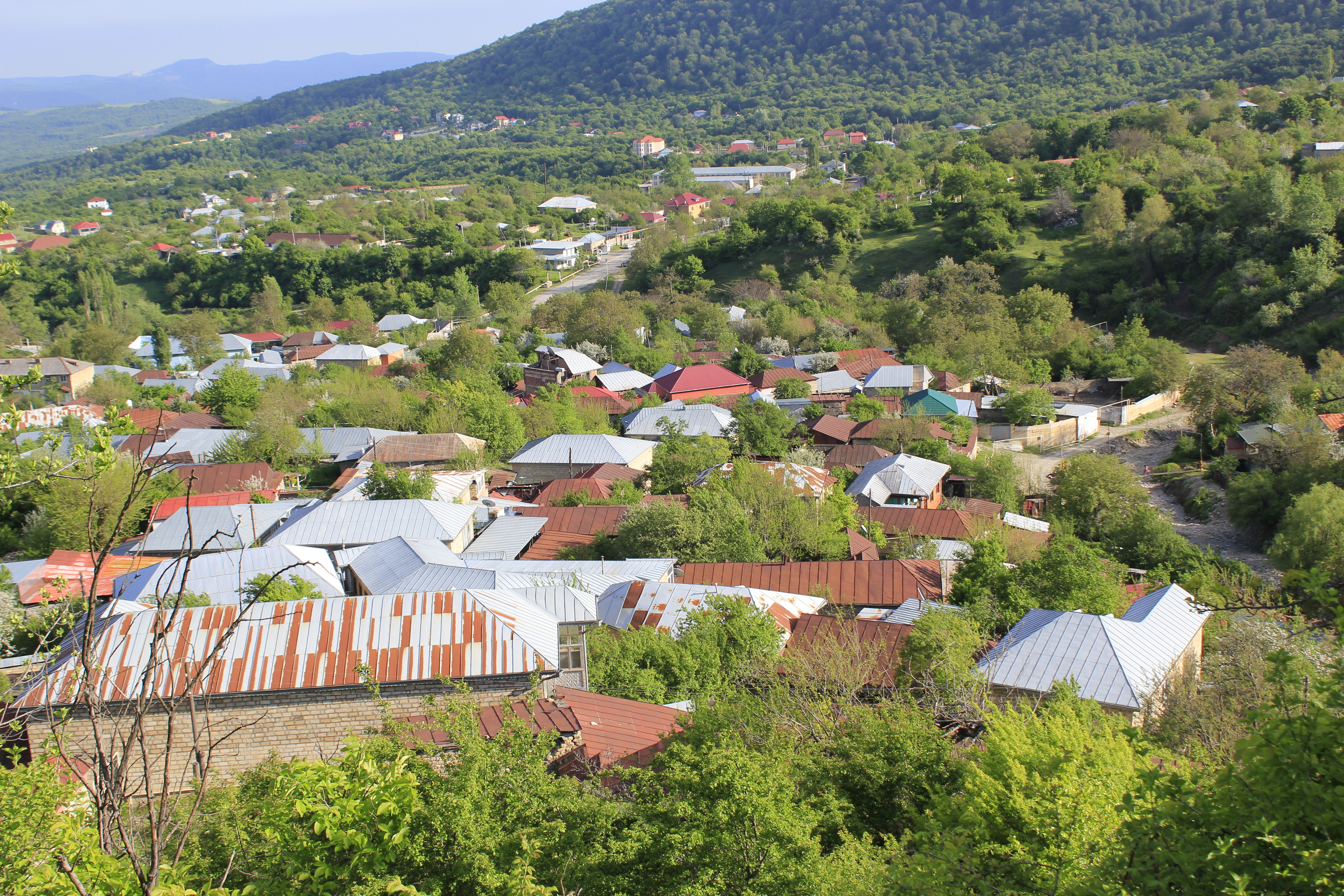 Basgal village in Azerbaijan